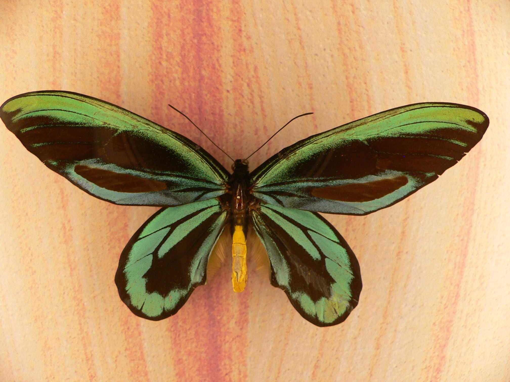 Ornithoptera alexandrae Pictures taken by myself at the Audubon Insectarium